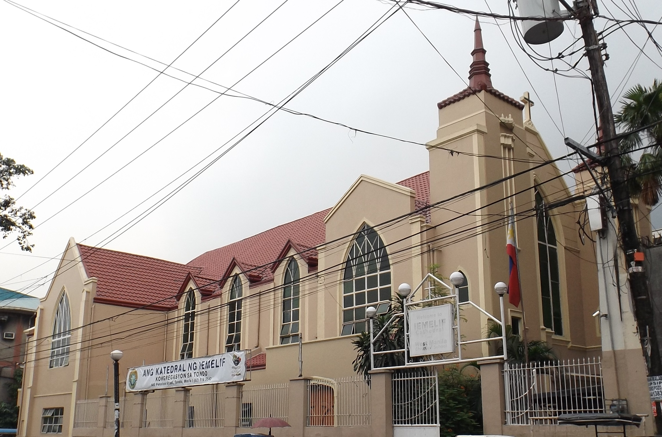 Western Facade of and Iglesia Evangelica Metodista en las Islas Filipinas